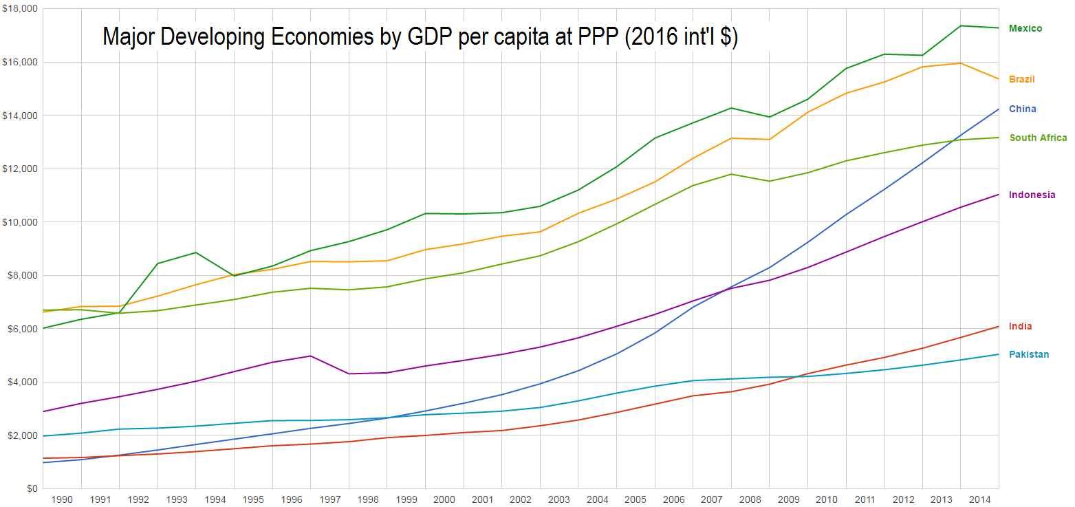 Graph of major developing economies by GDP per capita at purchasing-power parity, in constant 2011 international dollars, 1990-2013. Created on Excel from World Bank World Development Indicators 2014 data.